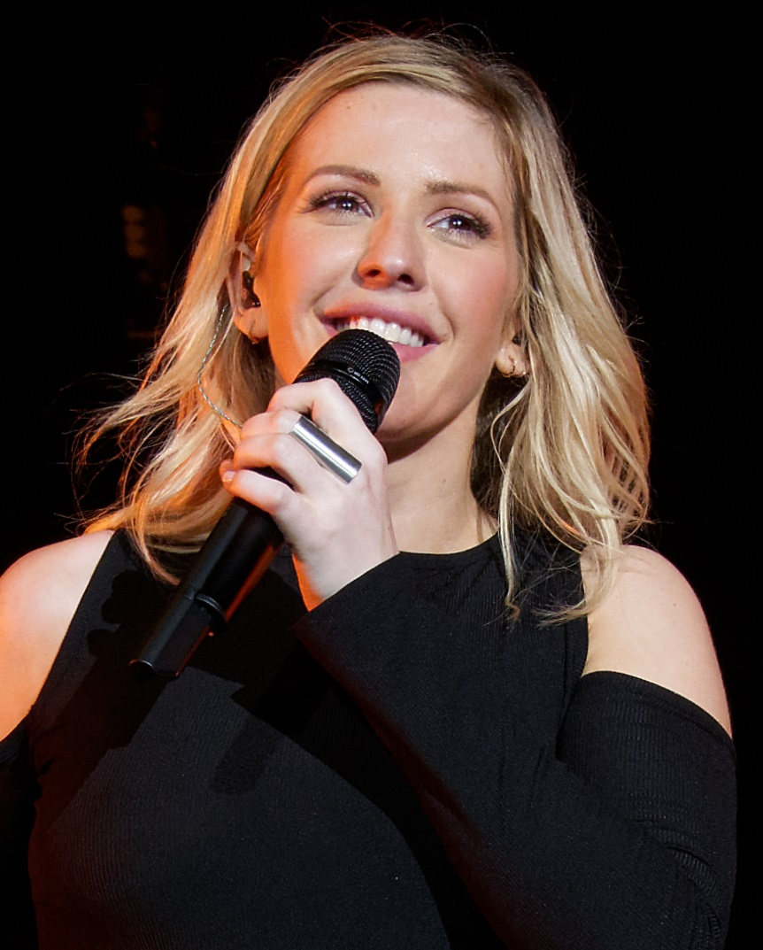 Ellie Goulding at Staples Center